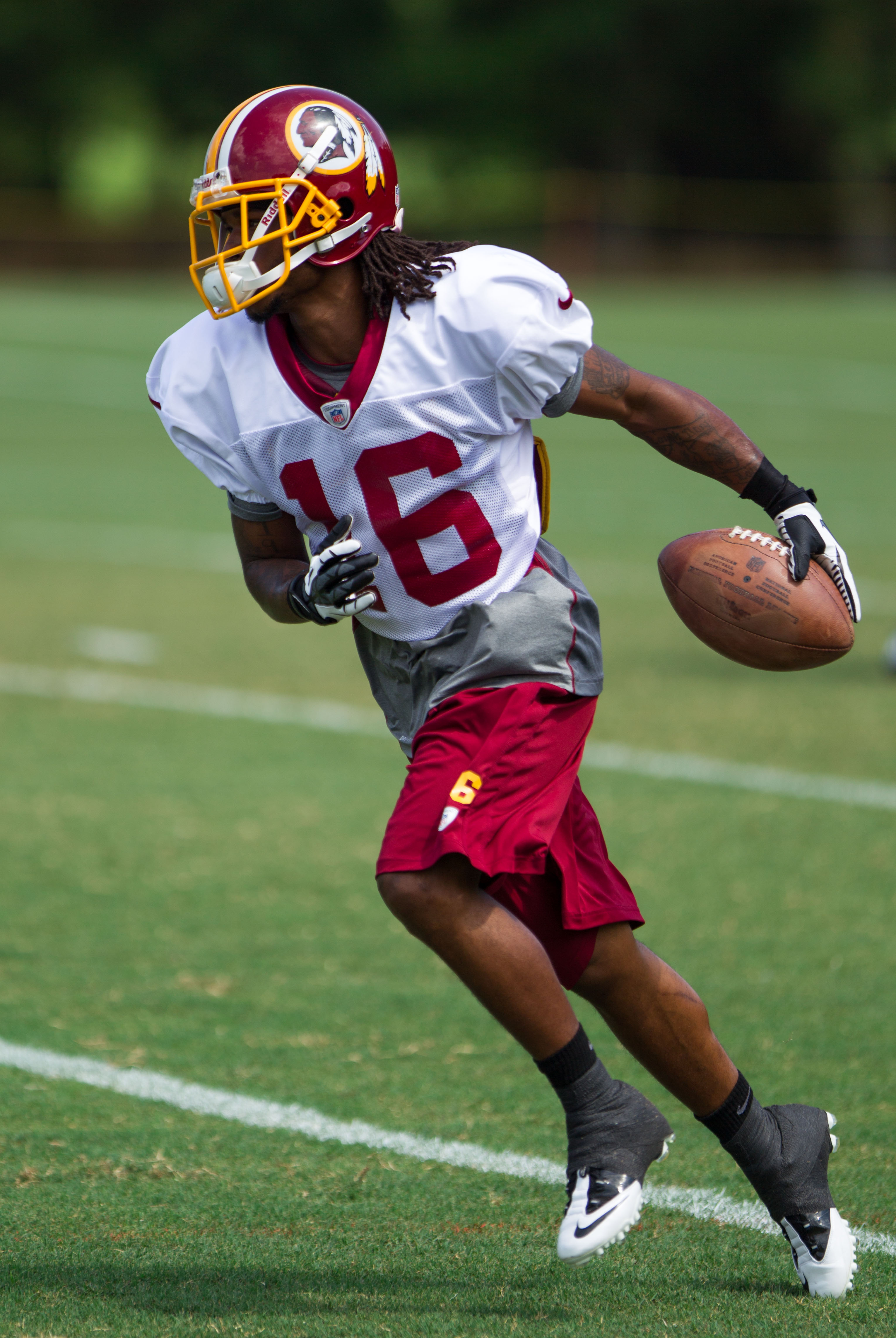 Brandon Banks at Washington Redskins Training Camp July 30, 2012